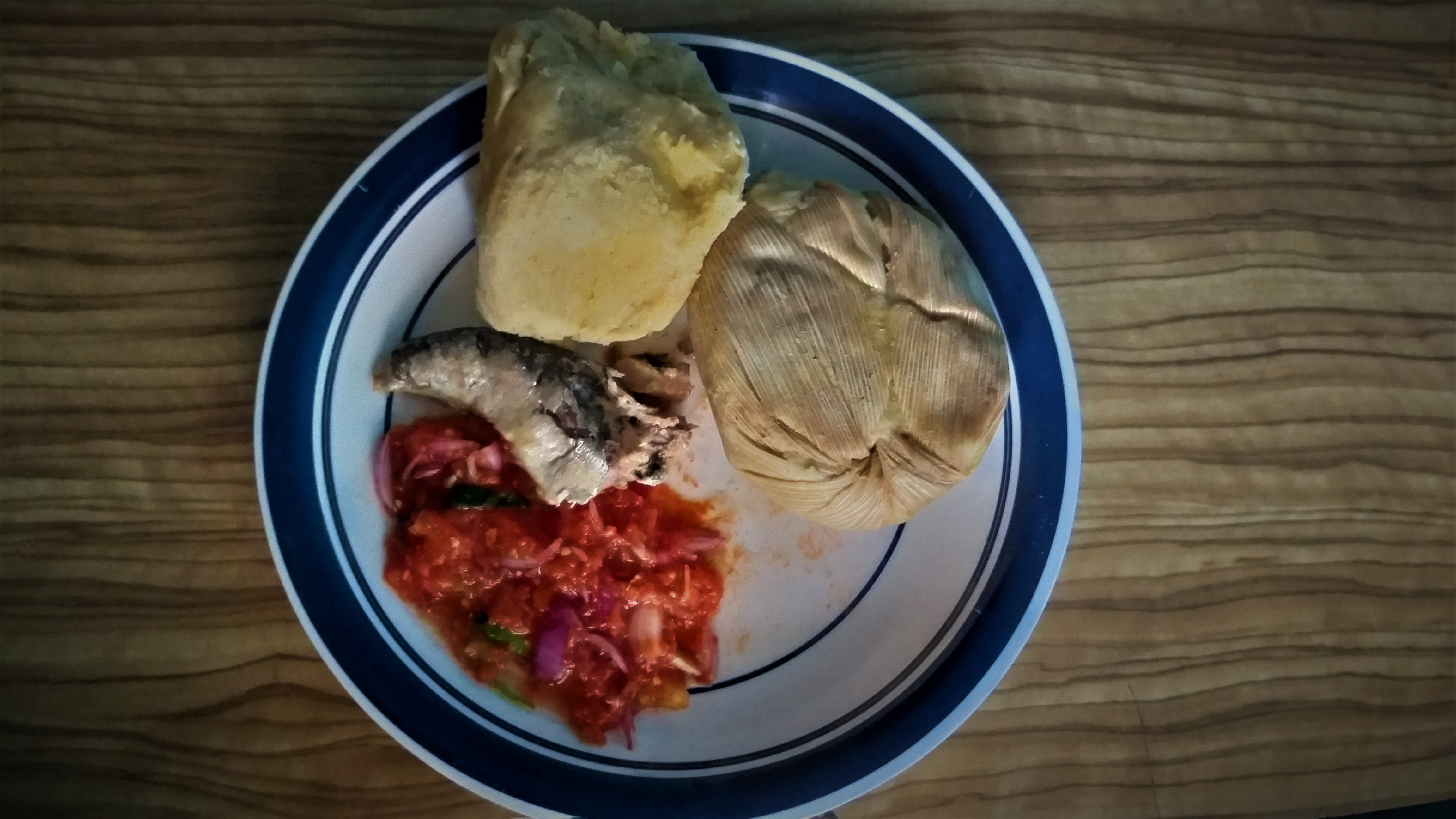 Kenkey or kormi or kokoe or dorkunu is a staple dish similar to sourdough dumpling from the Ga and Fante-inhabited regions of West Africa, usually served with pepper sauce and fried fish or soup, stew. This photo has been taken in the country: Ghana